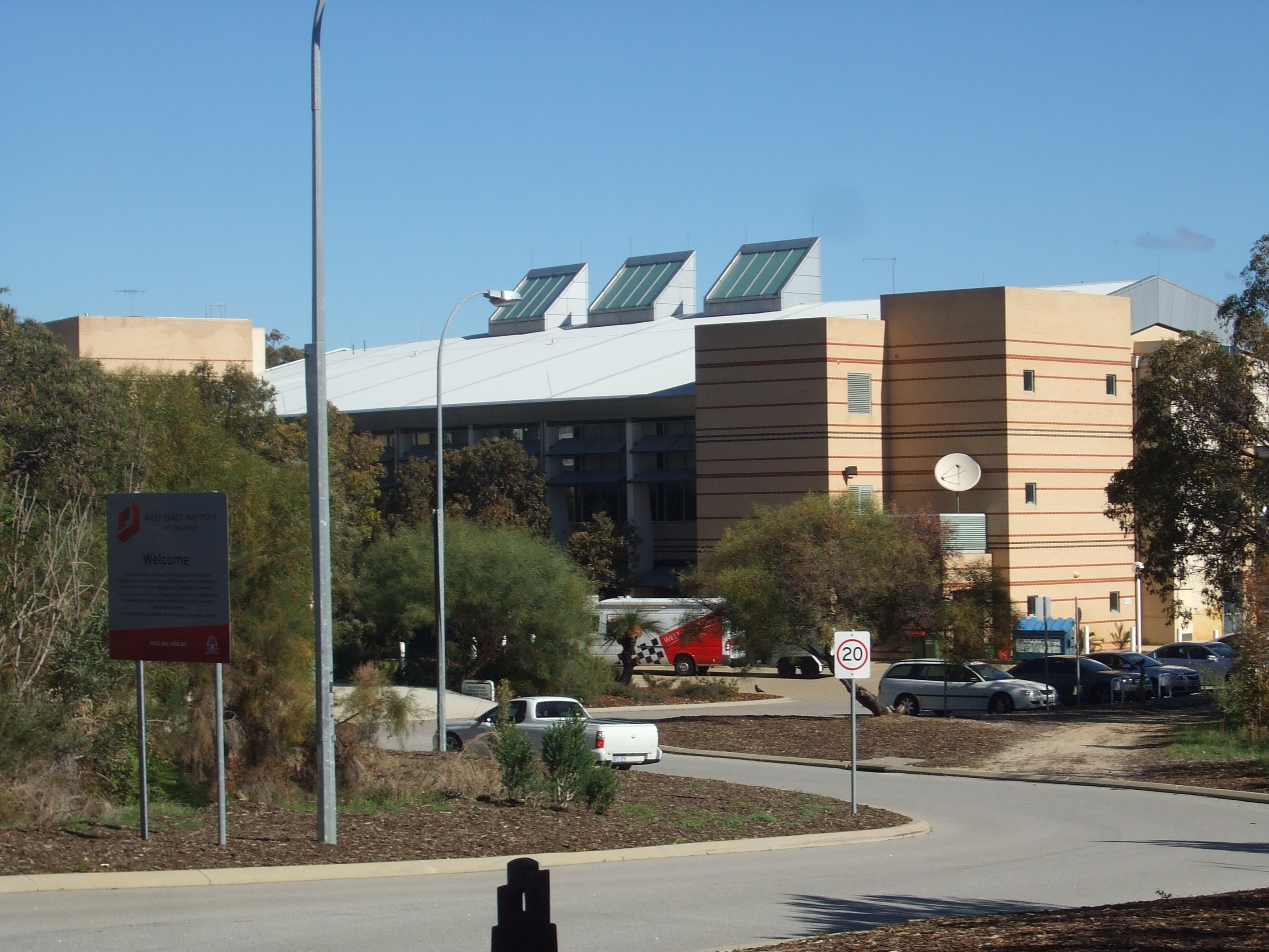 Photo of the Joondalup campus of West Coast Institute of Training.